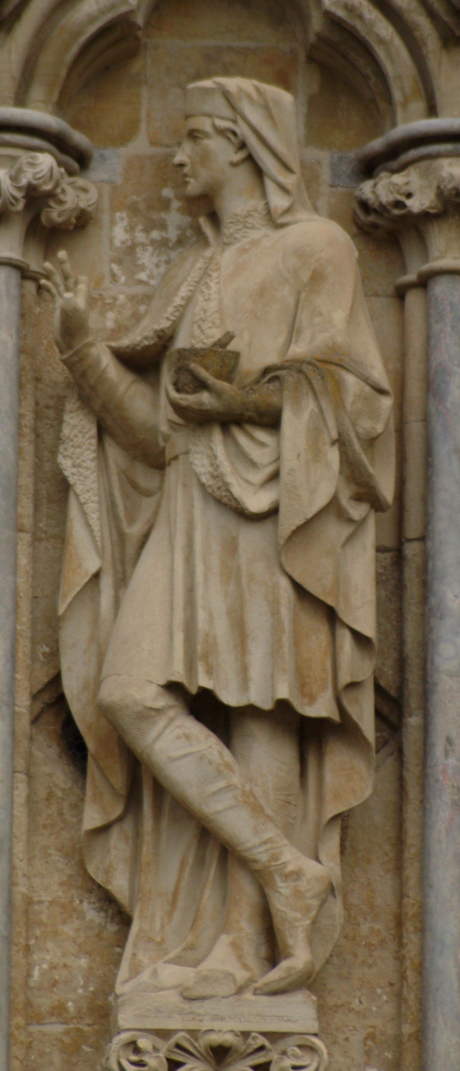 Statue of St Damian on the West Front of Salisbury Cathedral, UK.